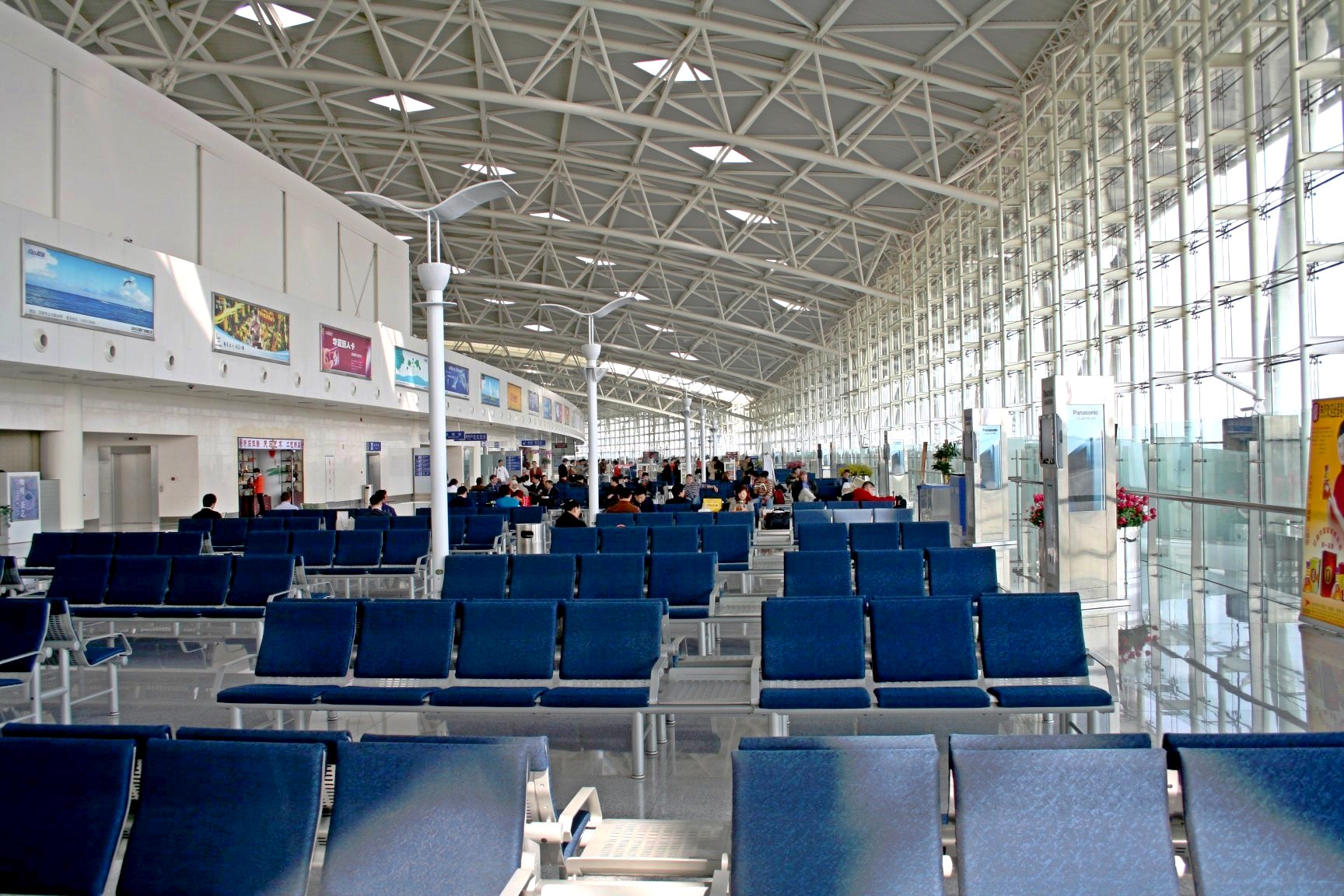 Photograph of the waiting area inside the terminal building of Jinan Yaoqiang International Airport in Jinan, China.